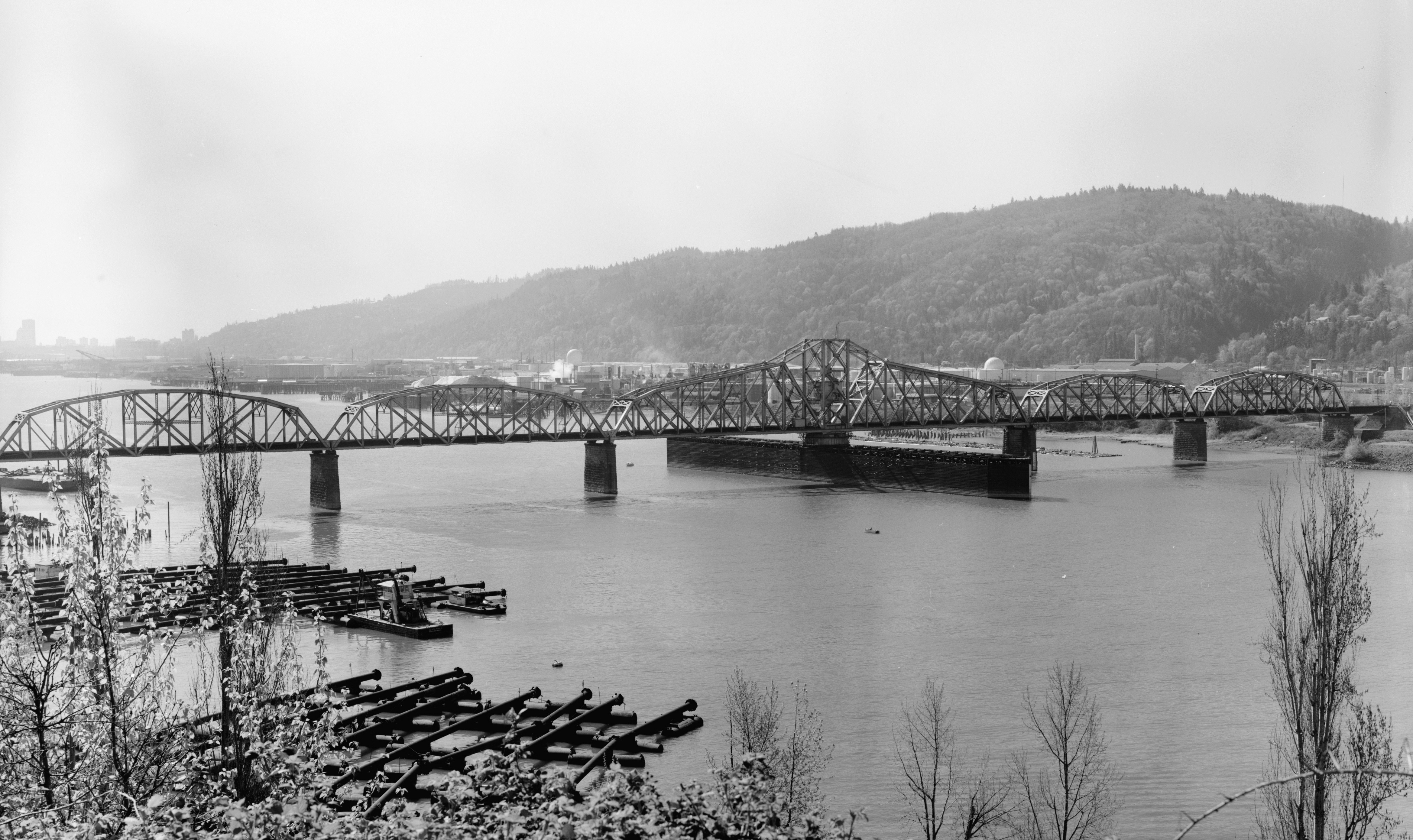 An overall view of the Burlington Northern Railroad Bridge 5.1, or Willamette River Bridge of BN (now of BNSF) in Portland, Oregon, in 1985, when the 1908 bridge was still a swing-span bridge. The main span was converted into a vertical-lift span in 1989. This view is looking southwest. Caption given in HAER documentation: "OR 7-41. General view of bridge from St. Johns Bluff, looking southwest."